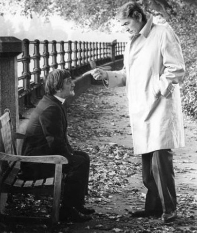 Publicity photo of Gregory Peck taken for film The Omen (1976). See also film still. No copyright notice.